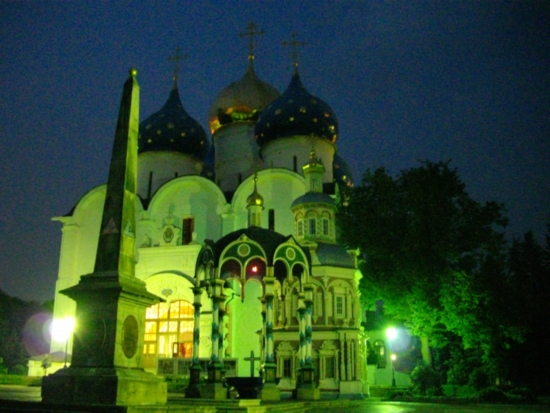 The Dormition Cathedral in the Holy Trinity-St. Sergius Lavra in Sergiev Posad.